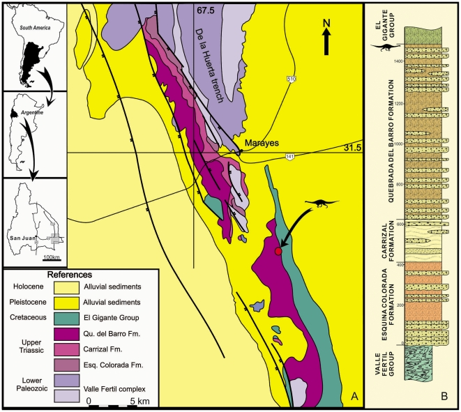 . A: Location and geologic map; B: Section of the Marayes group at the type locality. The red circle indicates the site of the holotype of Leyesaurus marayensis gen. et sp. nov., near the top of the Quebrada del Barro Formation. (B: modified from Bossi [23]).